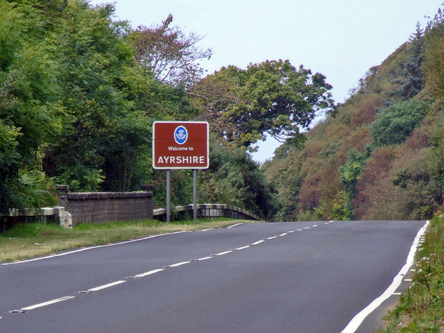 Welcome to Ayrshire (Milestone) Northbound on the A77, "Welcome to Ayrshire" sign, and Milestone to the left of the sign.